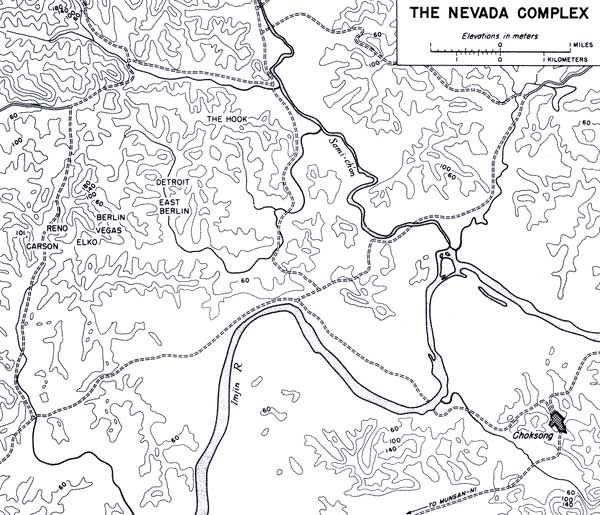 Map of the Nevada Complex Korea 1951-3